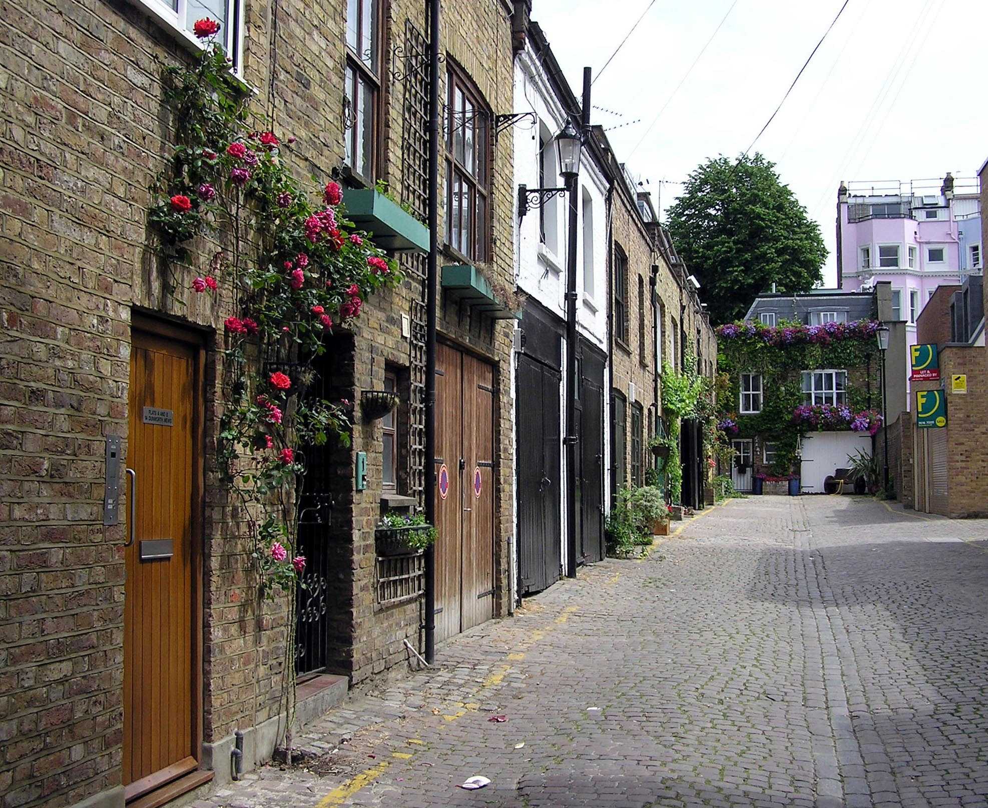 A street of mews houses (Dunworth Mews) in Notting Hill, London, England. Photographed by Adrian Pingstone in June 2005 and released to the public domain.